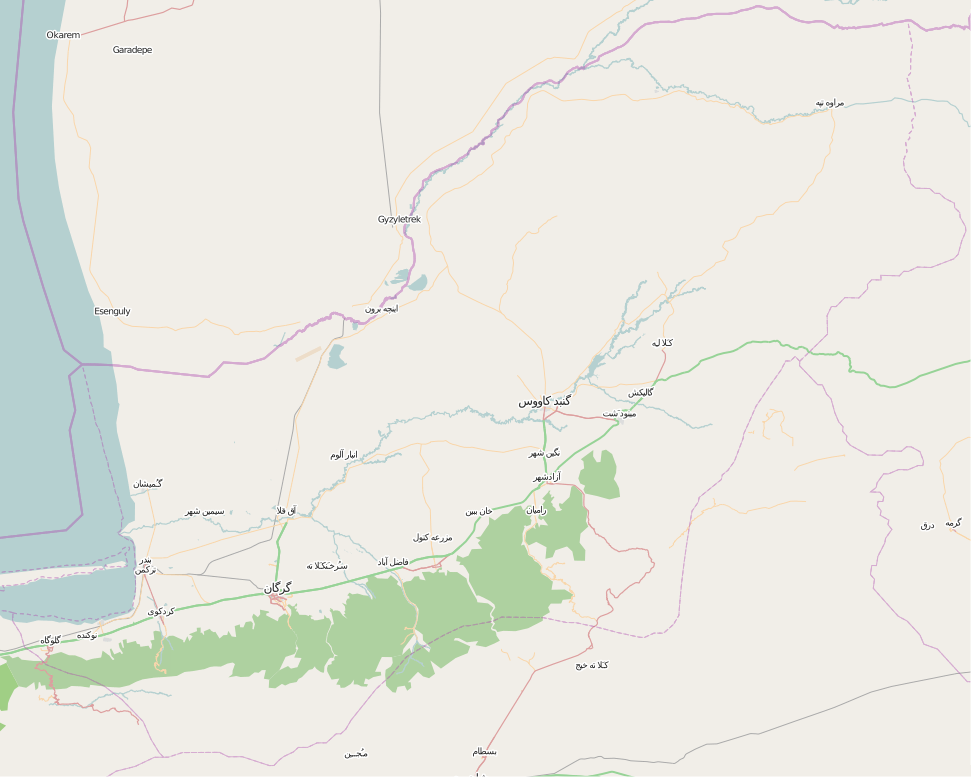 This map may be incomplete, and may contain errors. Don't rely solely on it for navigation.